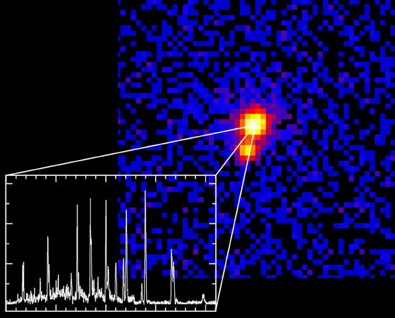 Zeta Orionis imaged by space telescope Chandra